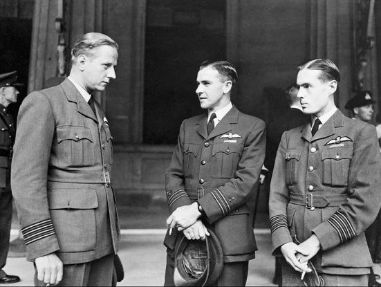 Group Captain Percy Pickard DSO and Bar, DFC (left), Squadron Leader William Blessing DSO, DFC, RAAF, and Group Captain Geoffrey Leonard Cheshire DSO and Bar, DFC, at an investiture at Buckingham Palace, 28 July 1943.